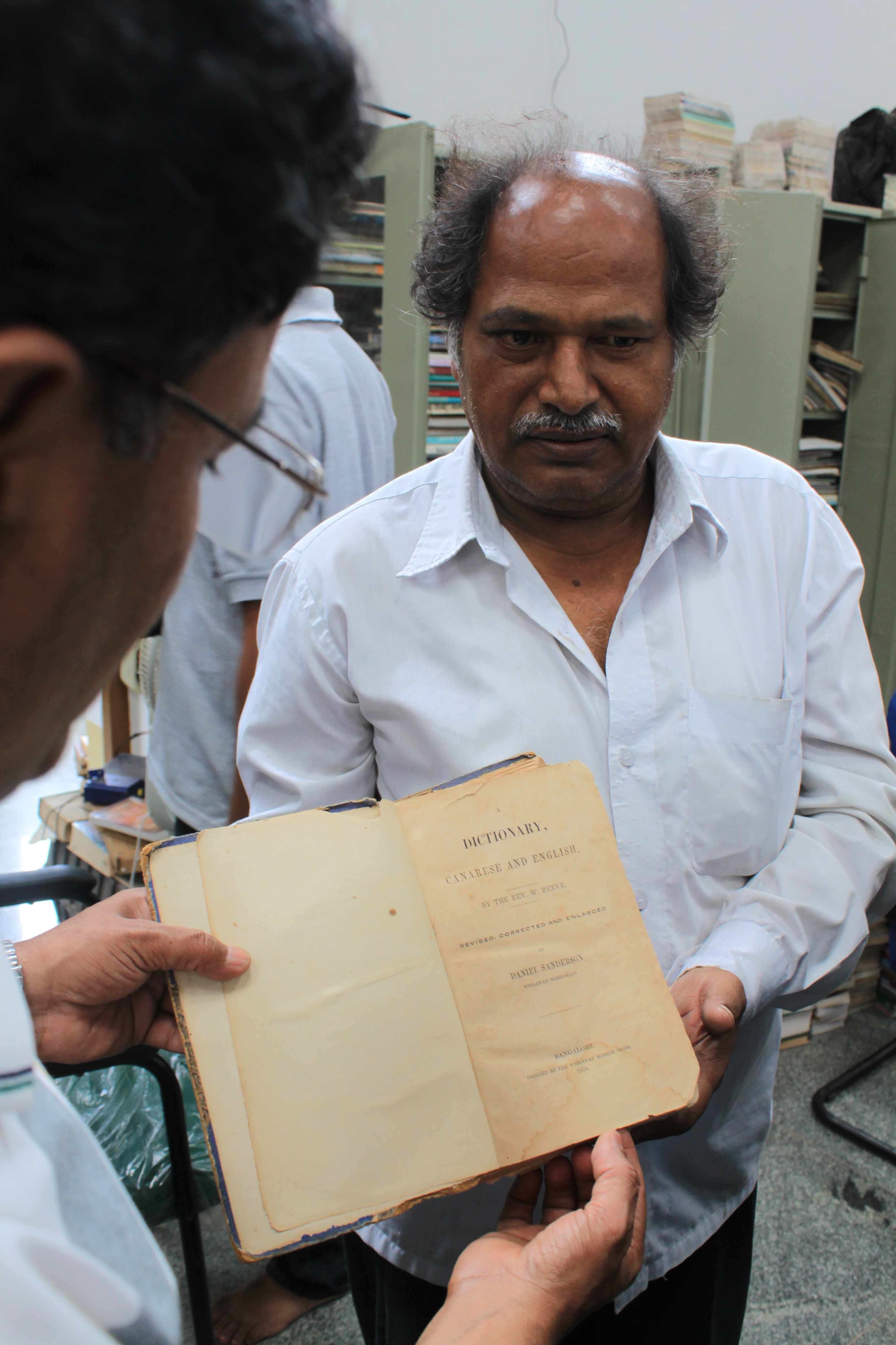 Anke Gowda displaying Canarese and English dictionary by Daniel Sanderson printed in 1838 from his collections at his self made, and privately owned library "Pustaka Mane" at Pandavapura, Mandya District, Indian state of Karnataka